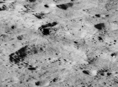 Oblique view of Trumpler (below center) and Nušl (above center) craters, on the far side of the moon, facing north.